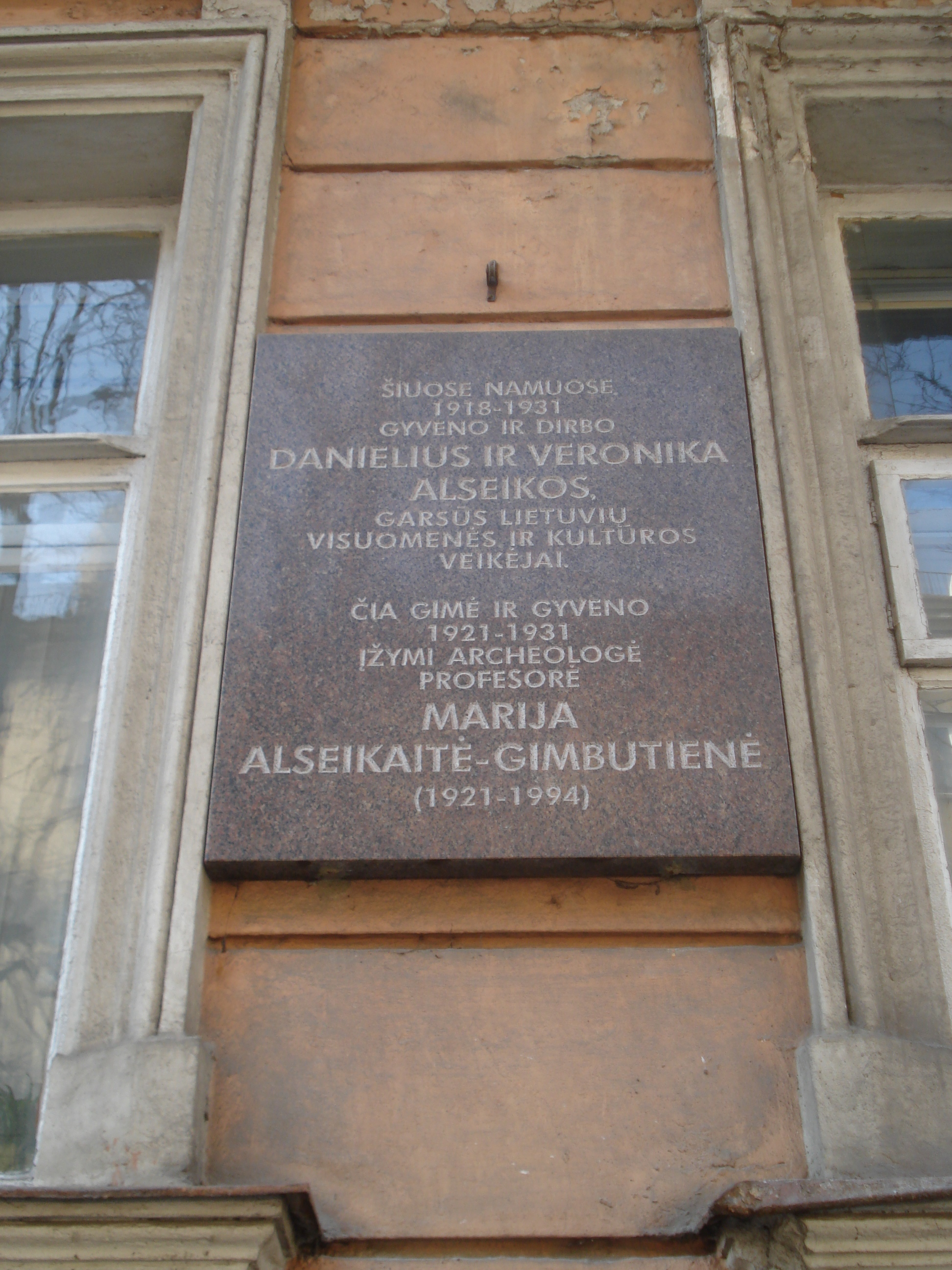 Tablet in memory of Marija Gimbutas and her parents on the house in Vilnius. Jogailos g. 11.